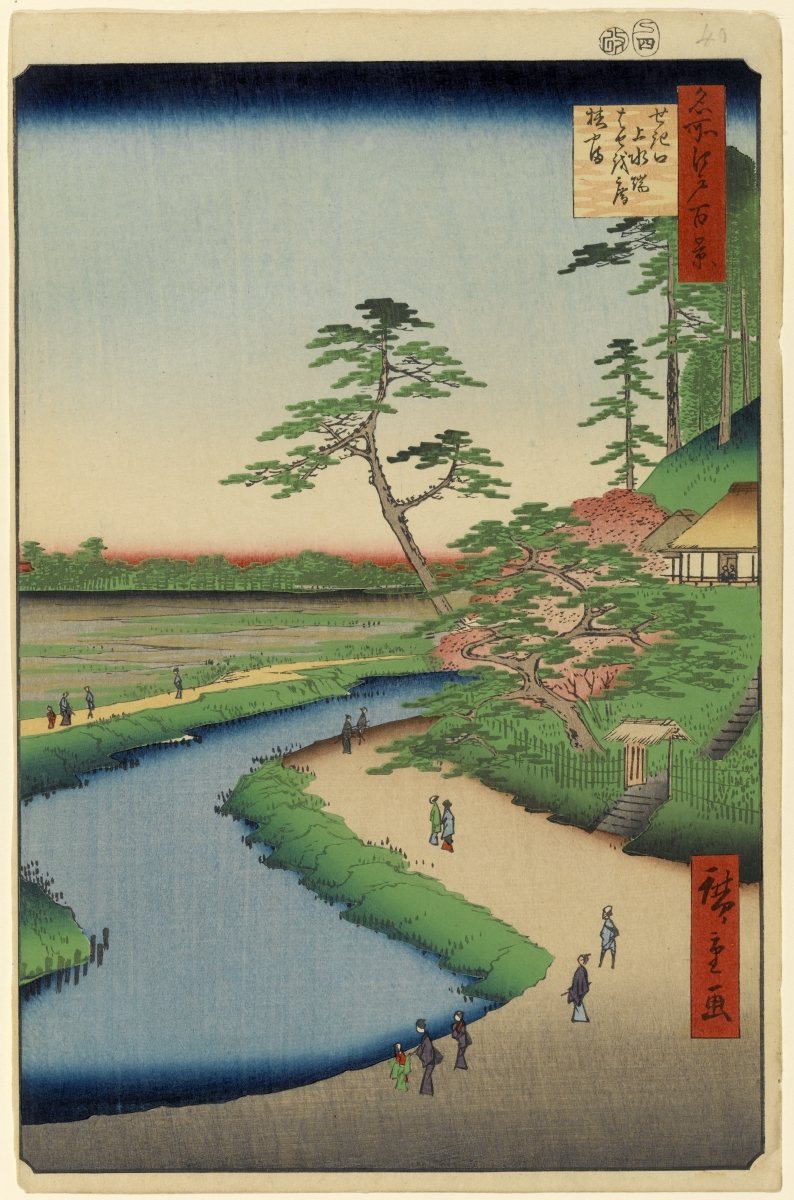 Part of the series One Hundred Famous Views of Edo, no. 040, part 1: Spring.